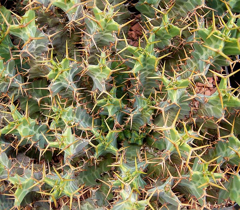 Euphorbia umfoloziensis Other versions of this file: available on request